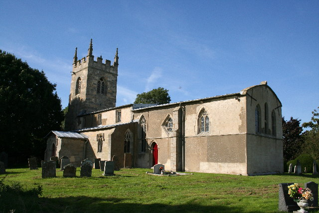 All Saints' church, Barnby-in-the-Willows, Notts. All saints' stands at the end of this sleepy village by the River Witham. The chancel windows have some very unusual tracery most likely 17th century rather than medieval. Inside is a Norman arcade and a delightful collection of 15th century poppy heads on bench ends.